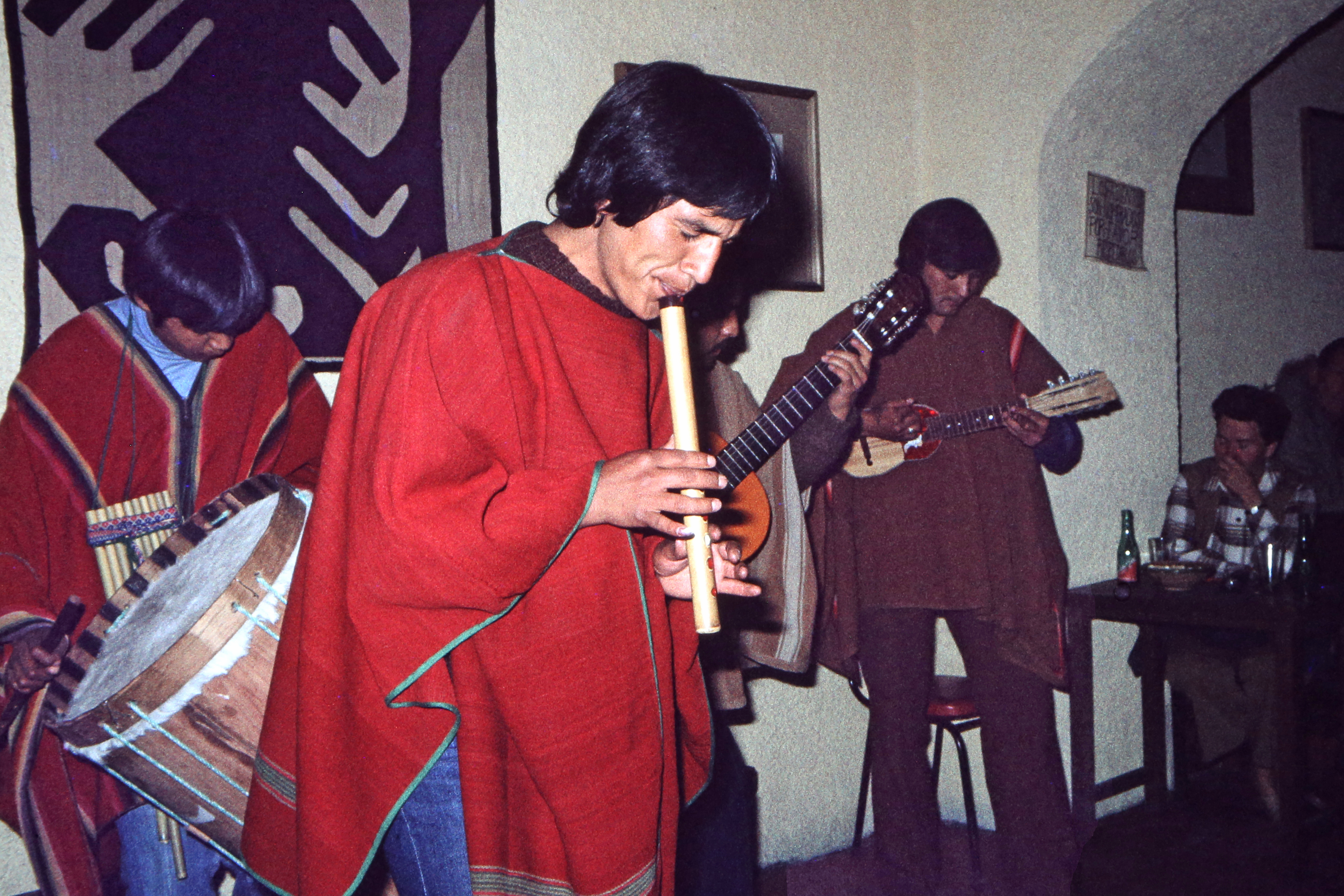 Bolivia, La Paz: Bolivian folklore and costumes.